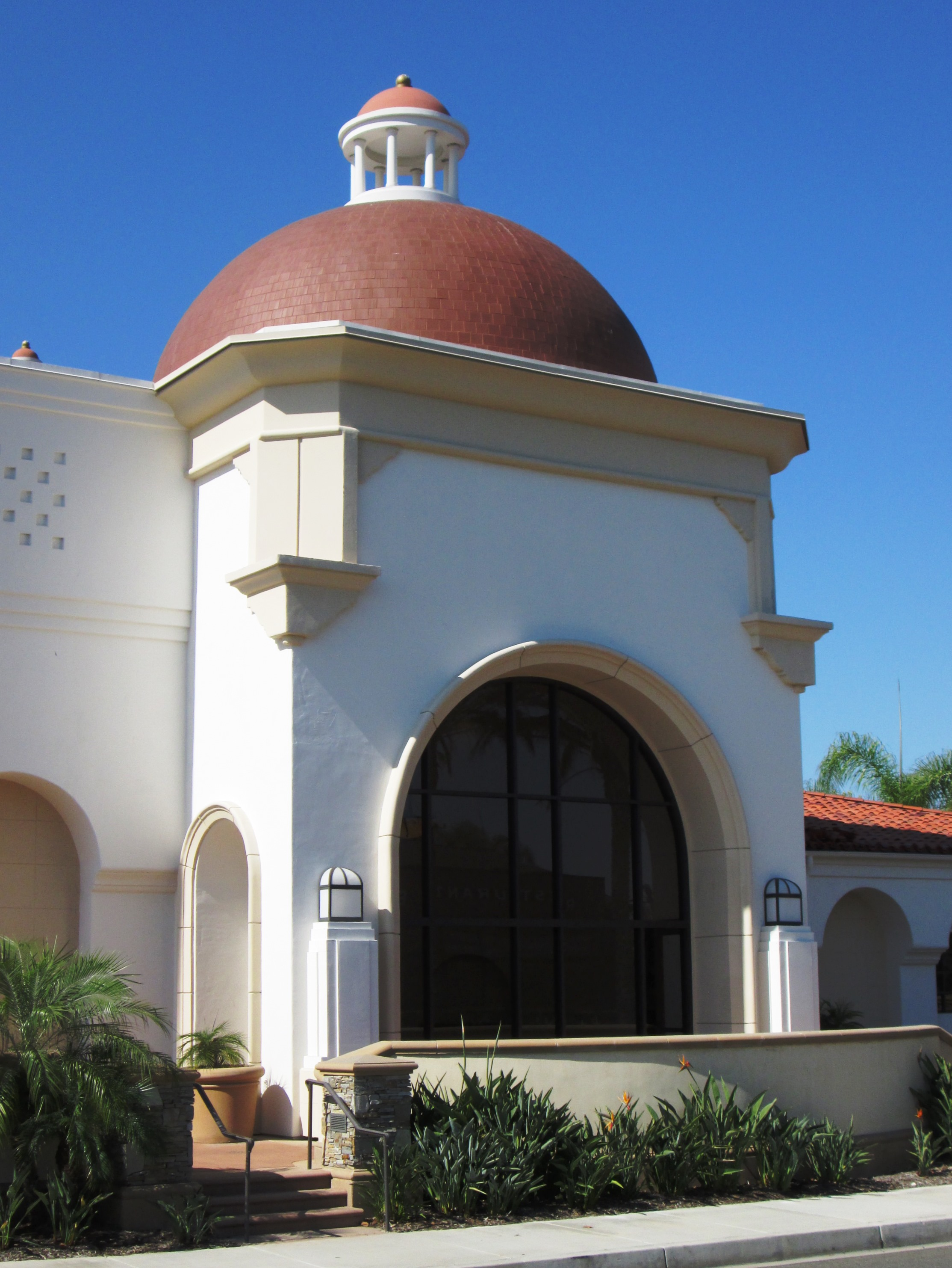 The Laguna Hills Civic Center was an existing office building at 24035 El Toro Road which was bought and totally renovated by the City of Laguna Hills, California. The city moved its City Hall there in 2004, but also rents out space in the building on a commercial basis, providing the city with a positive net income on the building. (Source: "Civic Center as Business Enterprise")